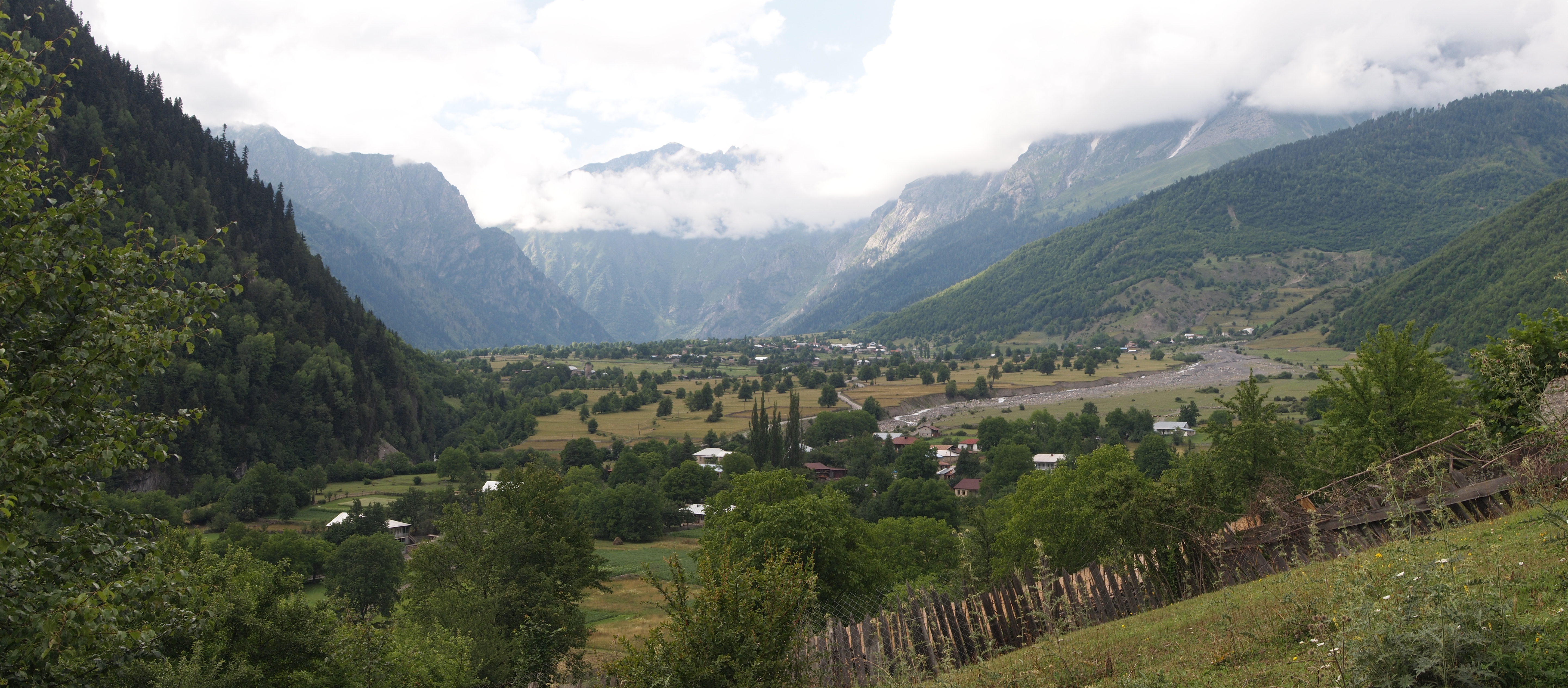 Becho valley, Svaneti, Georgia.